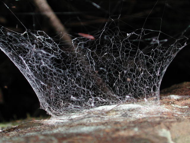 Hypochilus sp. web, Appalachia.